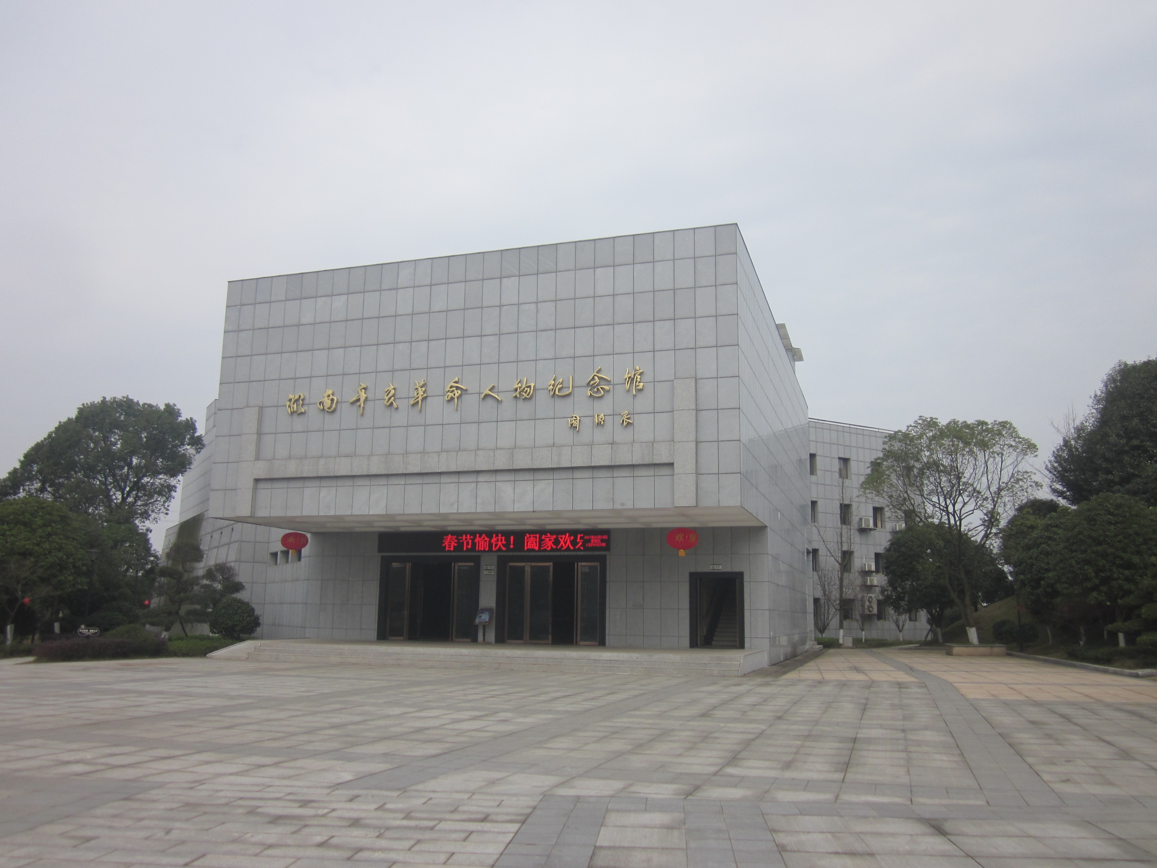 The Memorial of Xinhai Revolution Figures in Huangxing Town of Changsha County, Hunan, China.